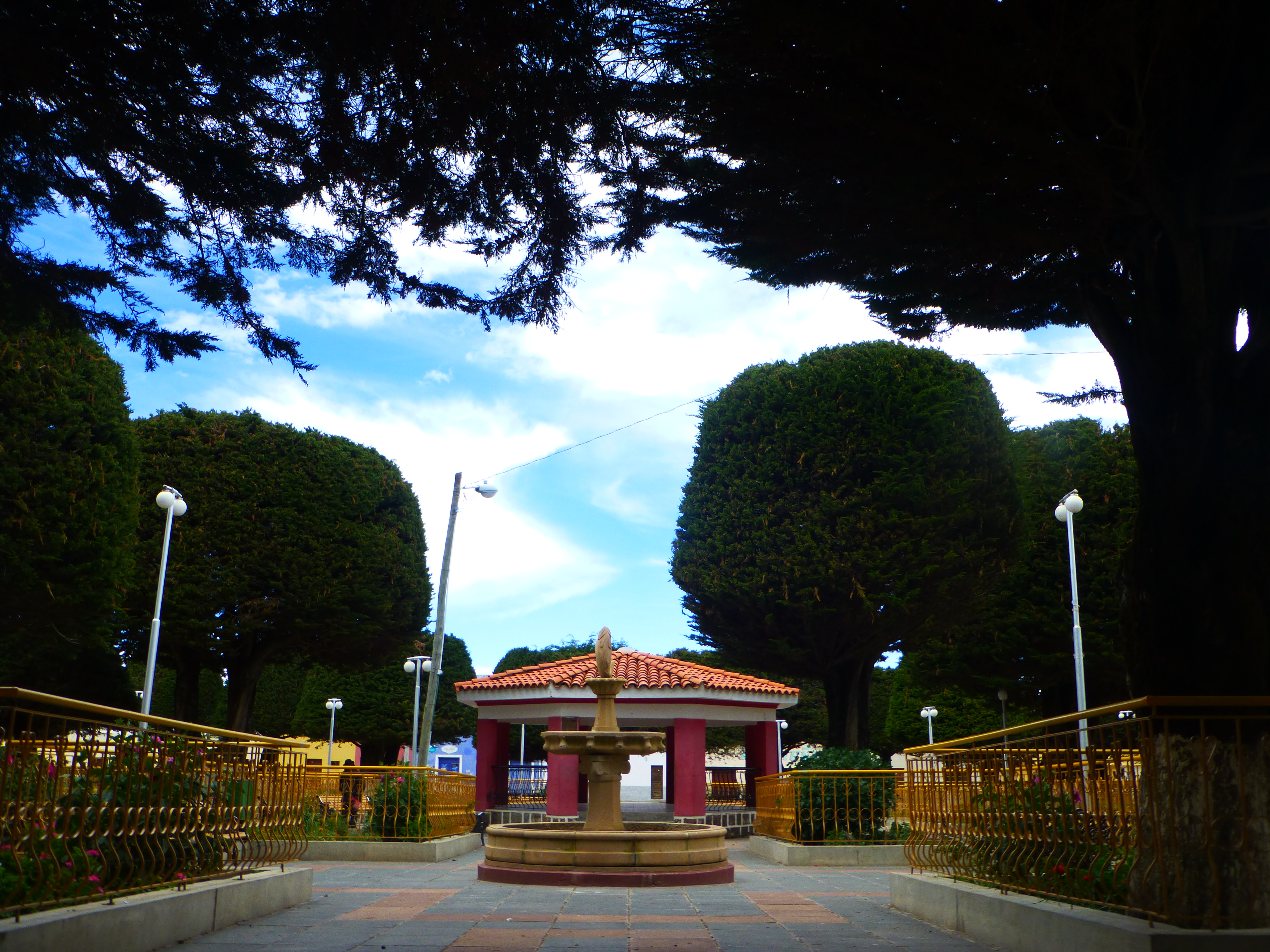 Carabuco's main square